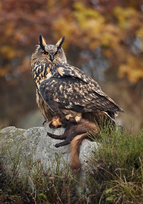 Bubo bubo with Martes martes prey, Žďárské vrchy, CZ